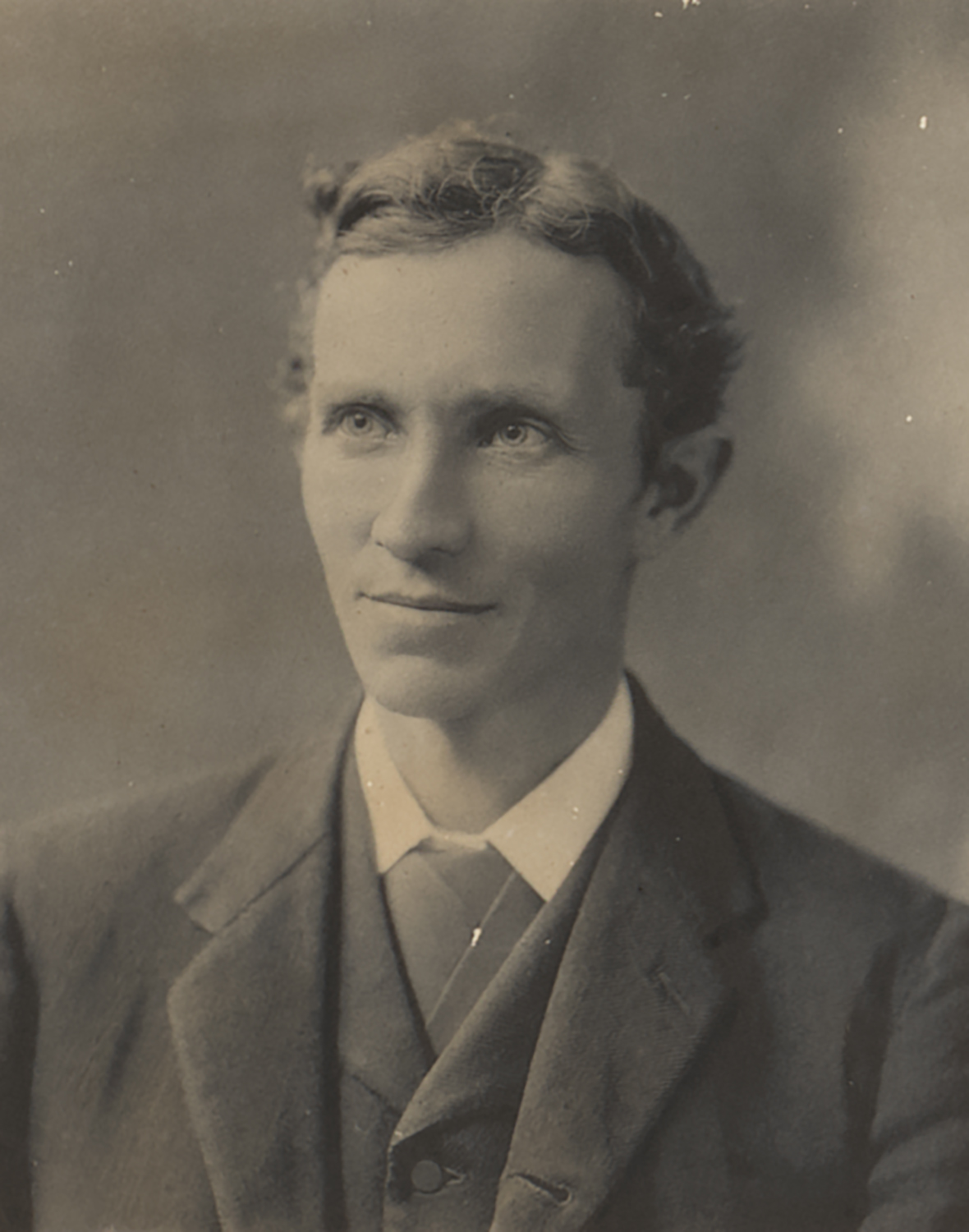 Tannatt William Edgeworth David, Council Member, the Australasian Association for the Advancement of Science, 1898, by J.H. Newman, from mounted vintage gelatin silver print, State Library of New South Wales, ML 524